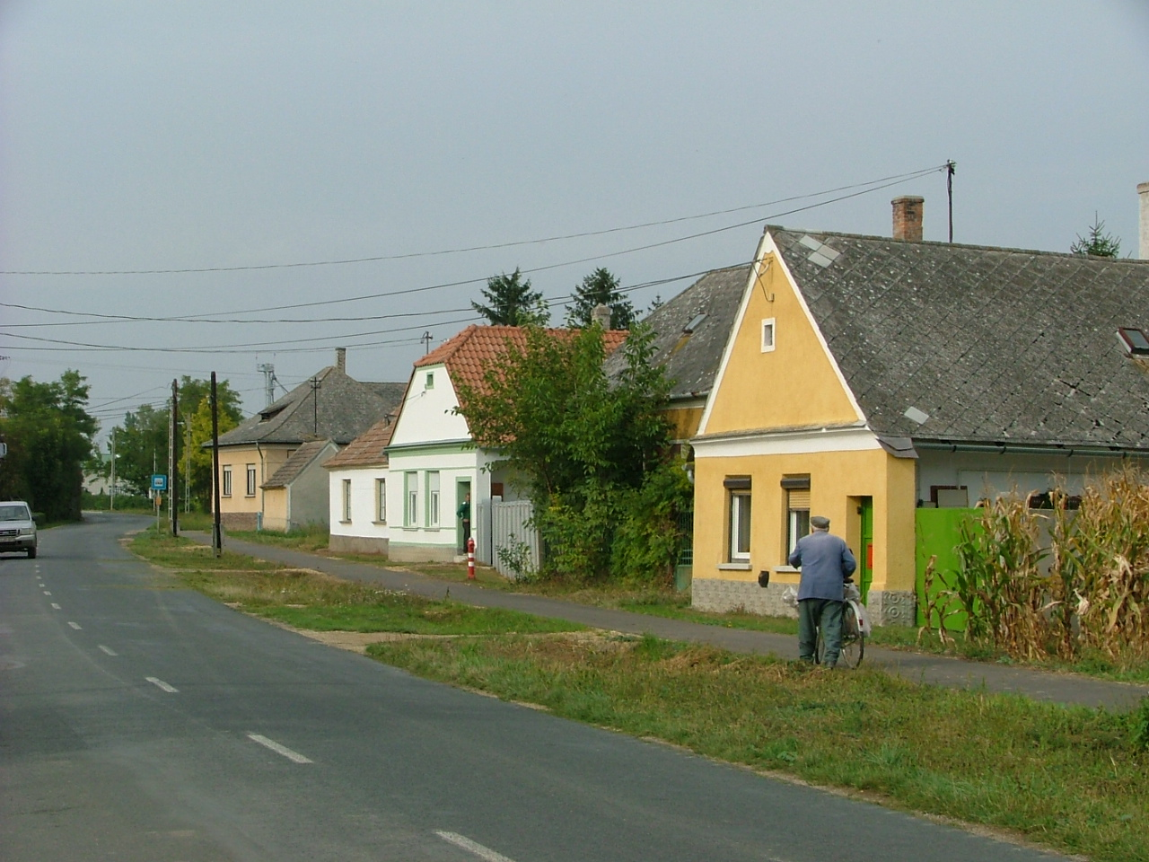 Gyalóka, street view